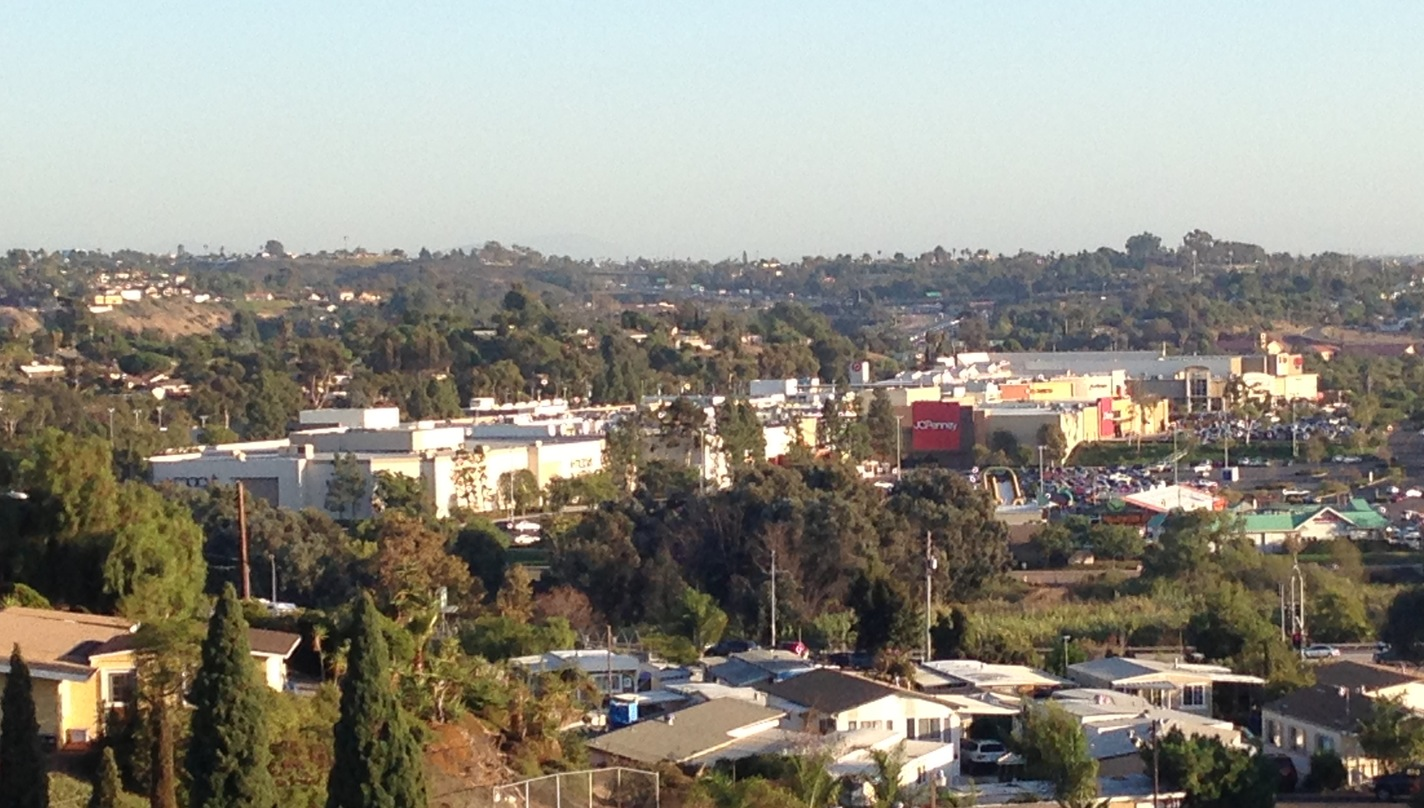 All Westfield Plaza area, photo taken from La Vista Cemetery.